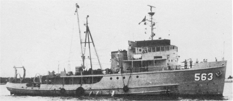 Ex USS Geronimo (ATA-207) in Taiwanese service as ROCS Chiu Lien (AGS-563), underway, date and location unknown. US Navy photo from "All Hands" magazine